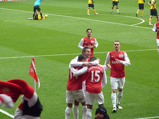 chamberlain scores, vermaelen runs over